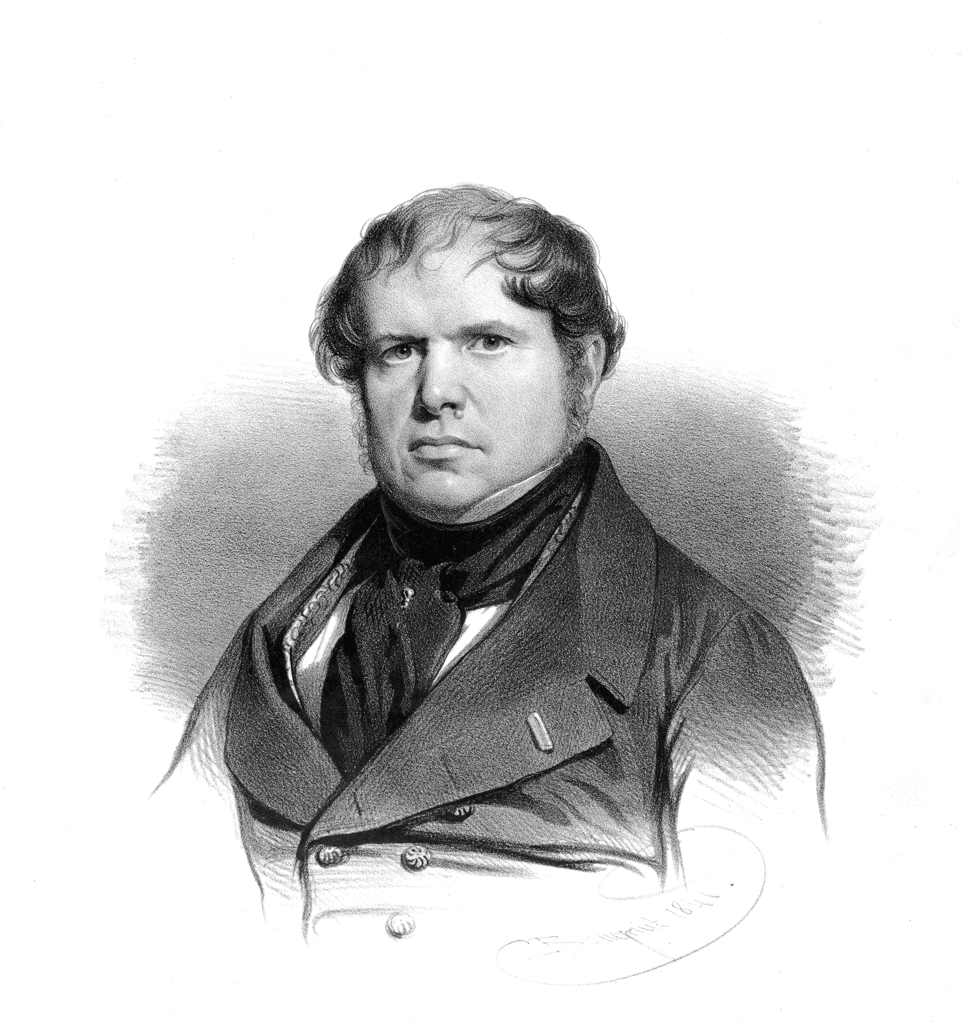 Lithograph of François-Joseph Fétis by Charles Baugniet offered "by her admirer" to Louise Farrenc (1804–1875).